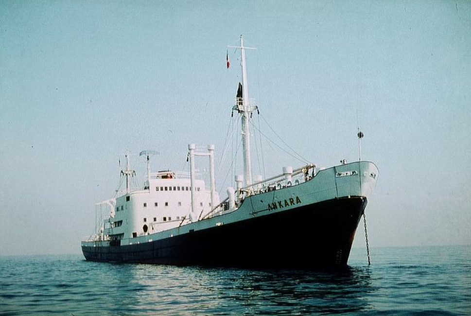 Cargo motor vessel Ankara by the German Levante Line at anchor in front of Ravenna, 1961